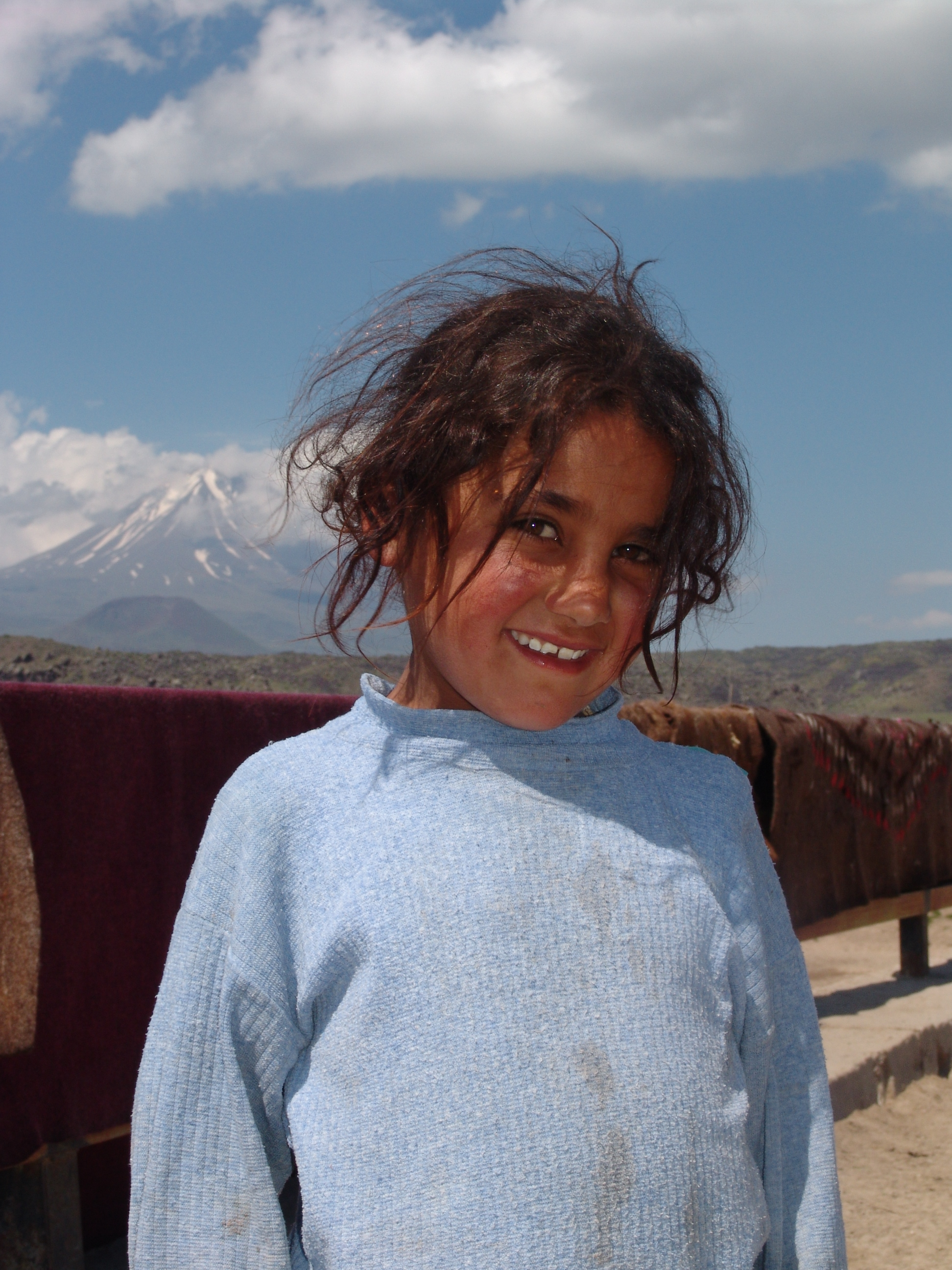 Kurdish girl in front of Mt Ararat.